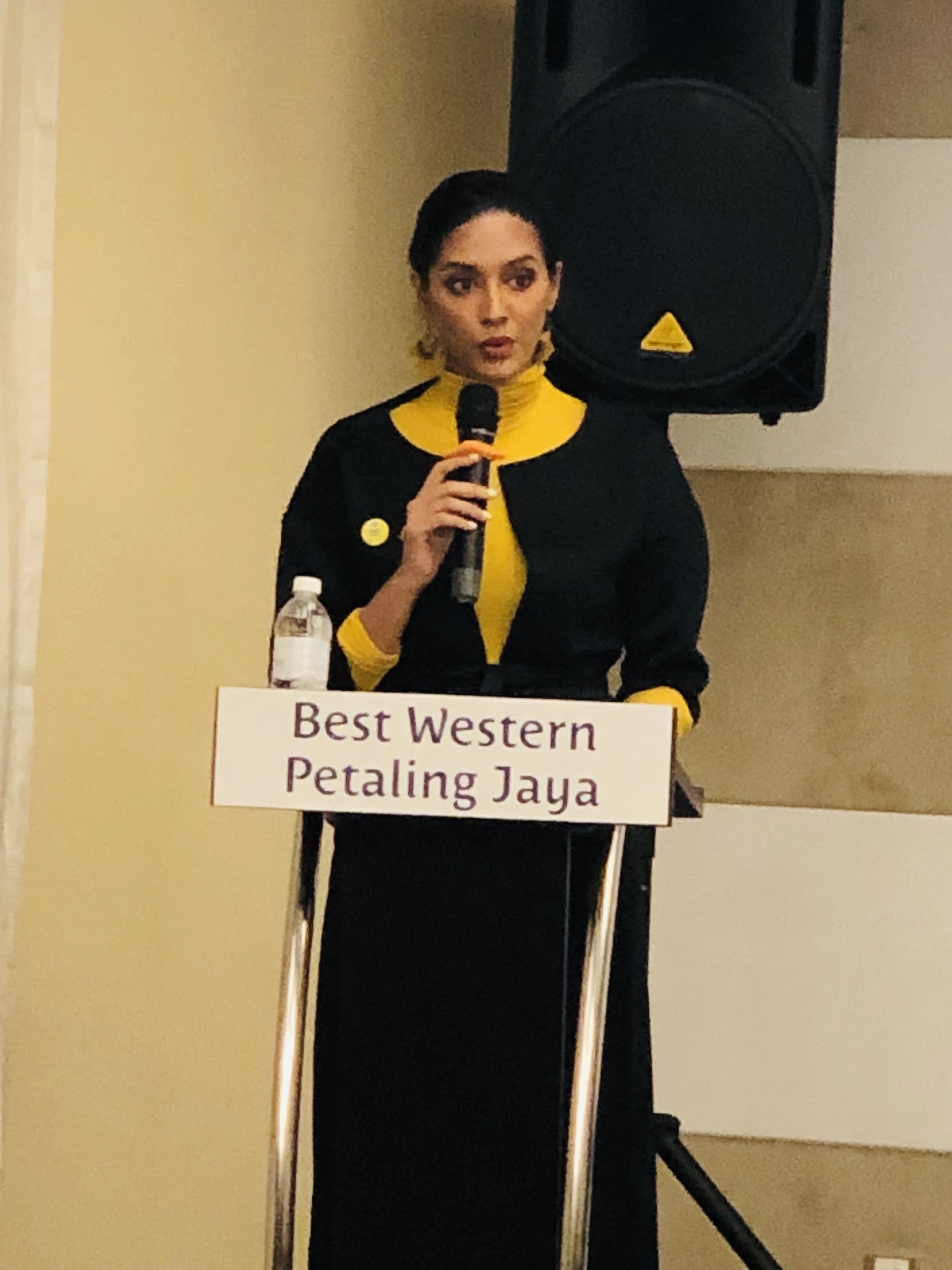 Anjhula bais 2018